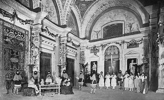 Nikolai Rimsky-Korsakov - Servilia - act 2, house of Agrippa - stage setting by Peter Lambin after a scetch by Konstantin Ivanov, 1902